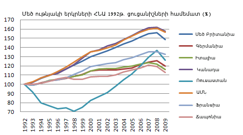 G8 Gross domestic product dynamic since 1992 in Armenian